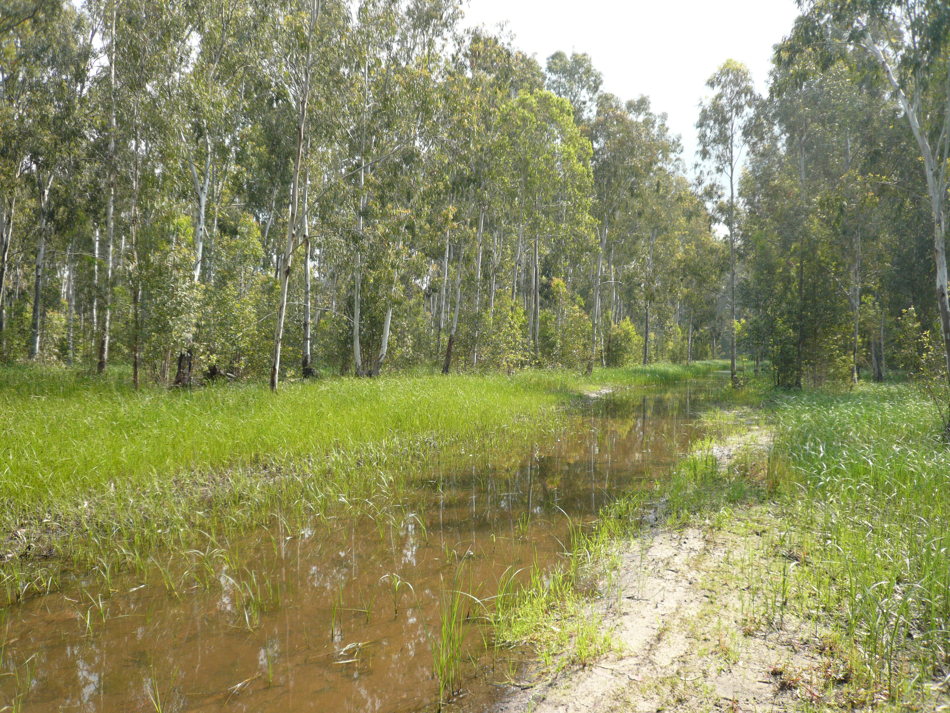 Forest south of Hadera, Israel